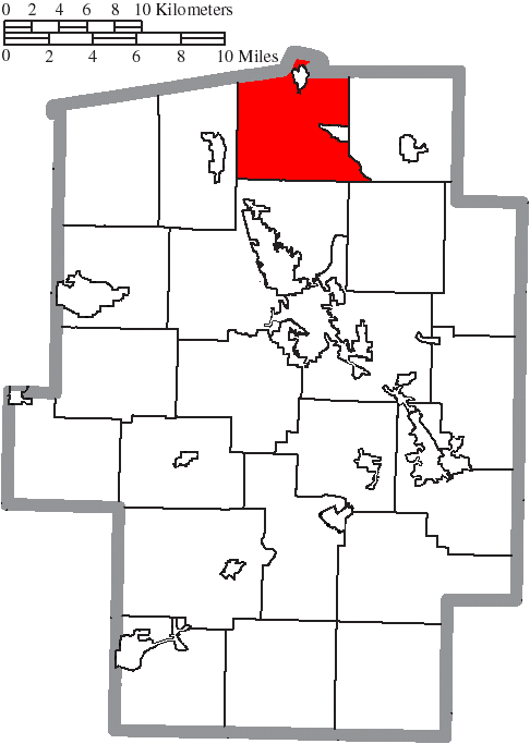 Map of the municipal and township boundaries of Tuscarawas County, Ohio, United States, as of the 2000 census, with the location of Lawrence Township highlighted. Township borders are shown only in unincorporated areas in order to differentiate incorporated and unincorporated areas more clearly.